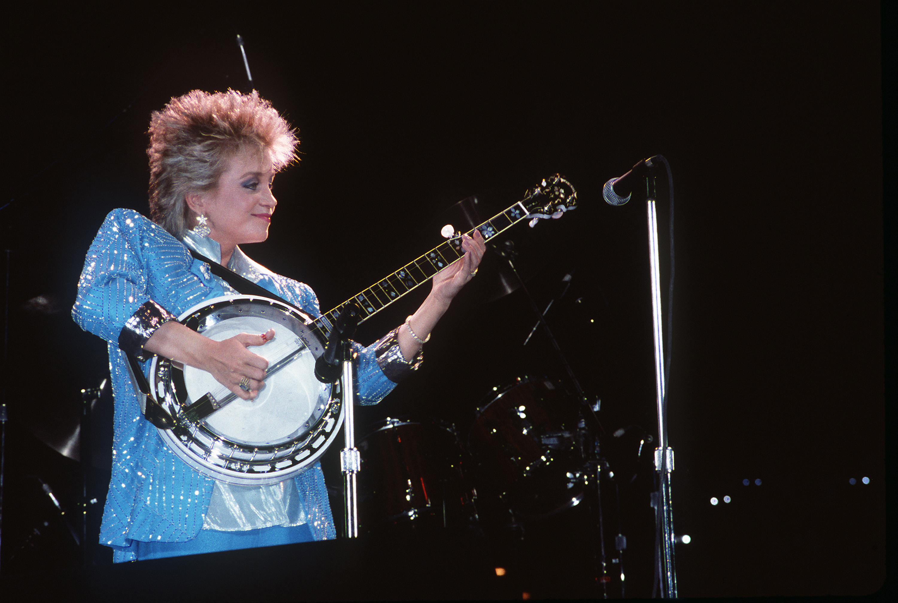 American country music singer Barbara Mandrell, U.S. DoD photo DN-ST-87-03190 Country western music singer Barbara Mandrell performs in a United Service Organizations (USO) show in the Pensacola Civic Center during the celebration of the 75th anniversary of naval aviation